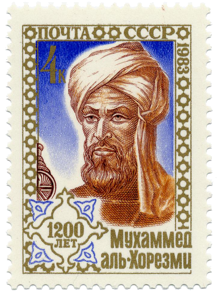 Muḥammad ibn Mūsā al-Ḵwārizmī. (He is on a Soviet Union commemorative stamp, issued September 6, 1983. The stamp bears his name and says "1200 years", referring to the approximate anniversary of his birth)